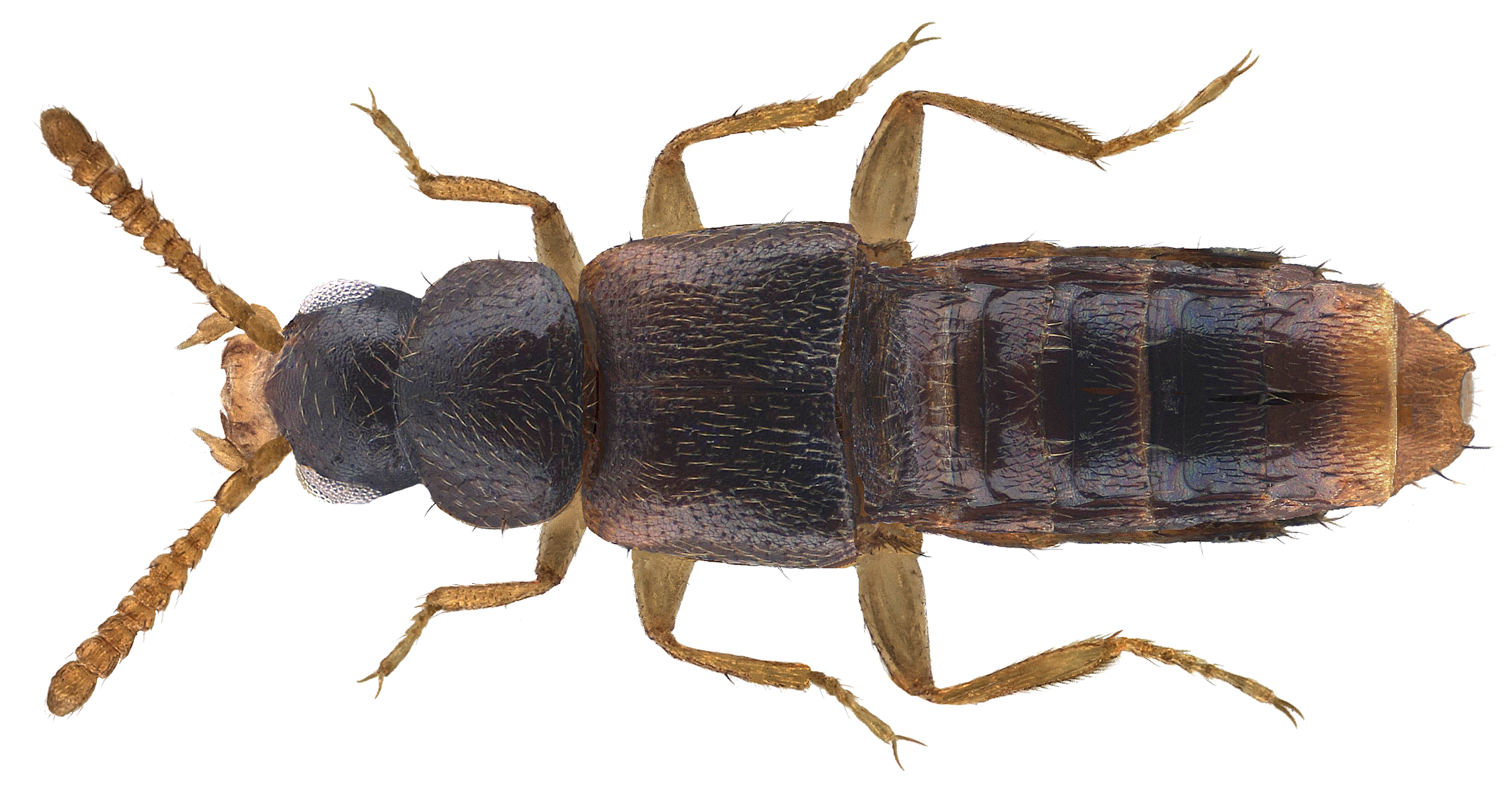 ♂ Gyrophaena boleti Family: Staphylinidae Size: 0,9–1,3 mm Origin: Europe Ecology: on tree fungi Location: Germany, Saxony, Ebnath A.Skale leg, 21.IV.2003; det. U.Schmidt, 2012 Photo: U.Schmidt, 2012